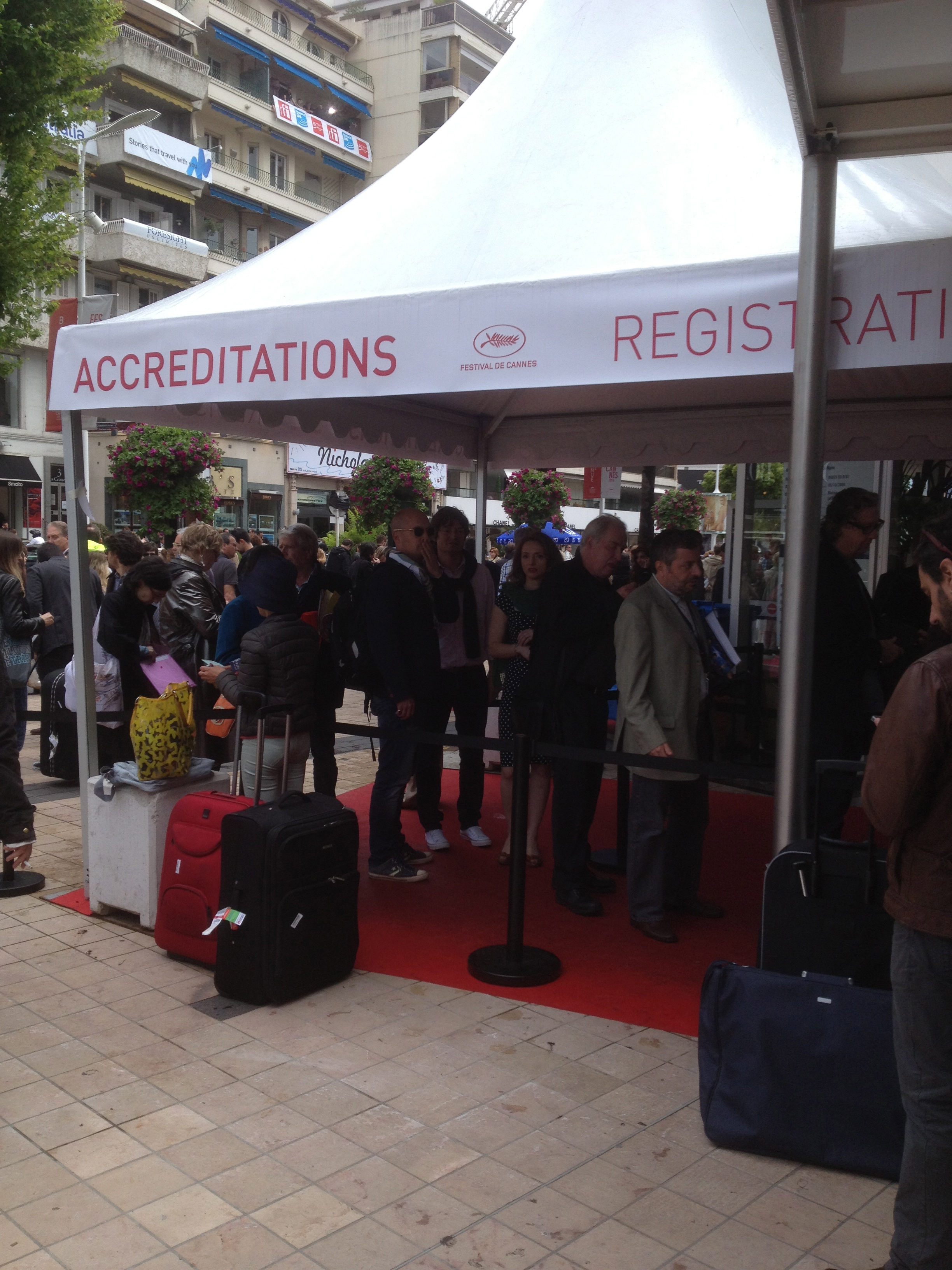 Registration and accreditation tent for the 2013 Cannes Film Festival.